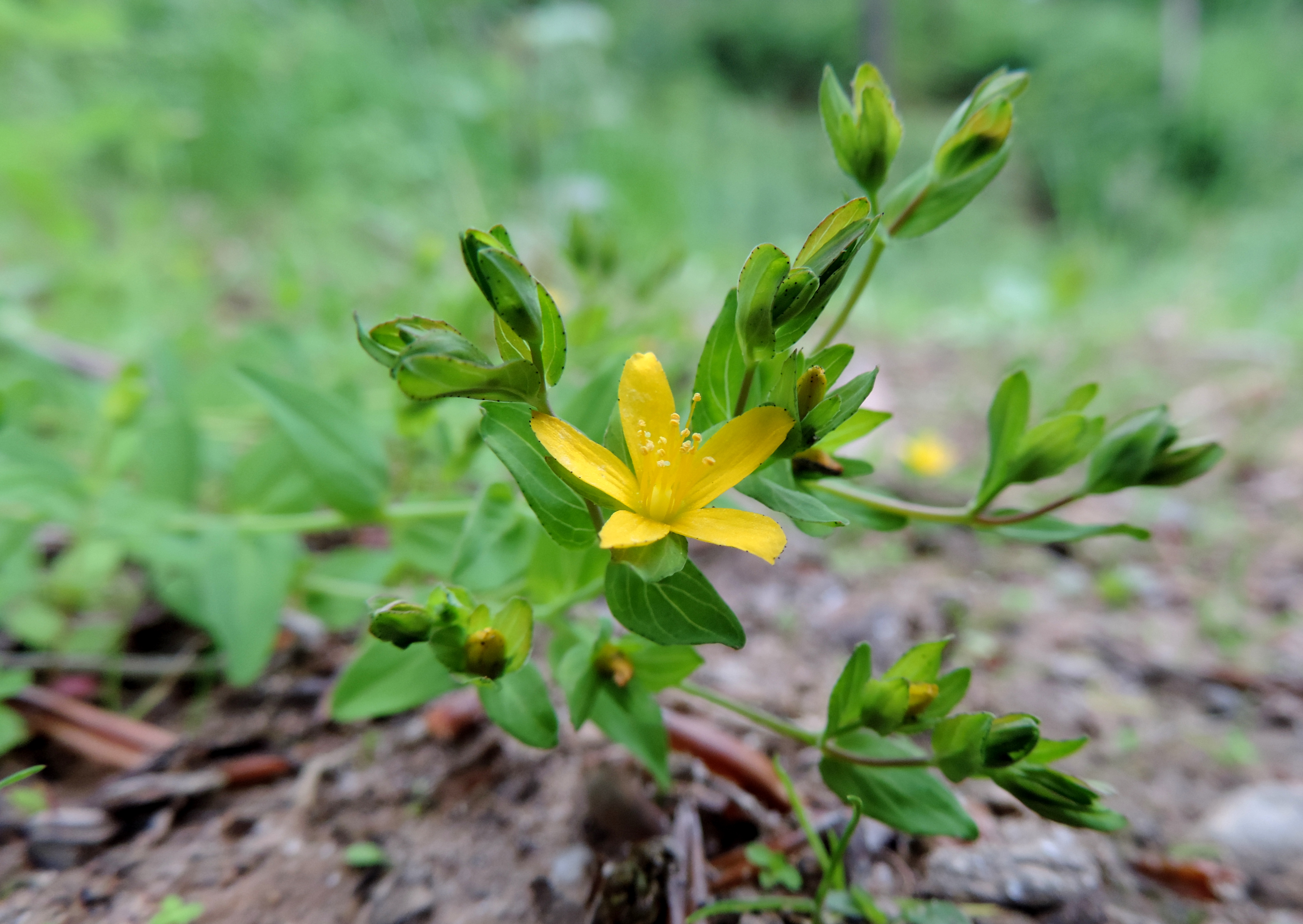 Hypericum humifusum in forest near Gniewino, N Poland